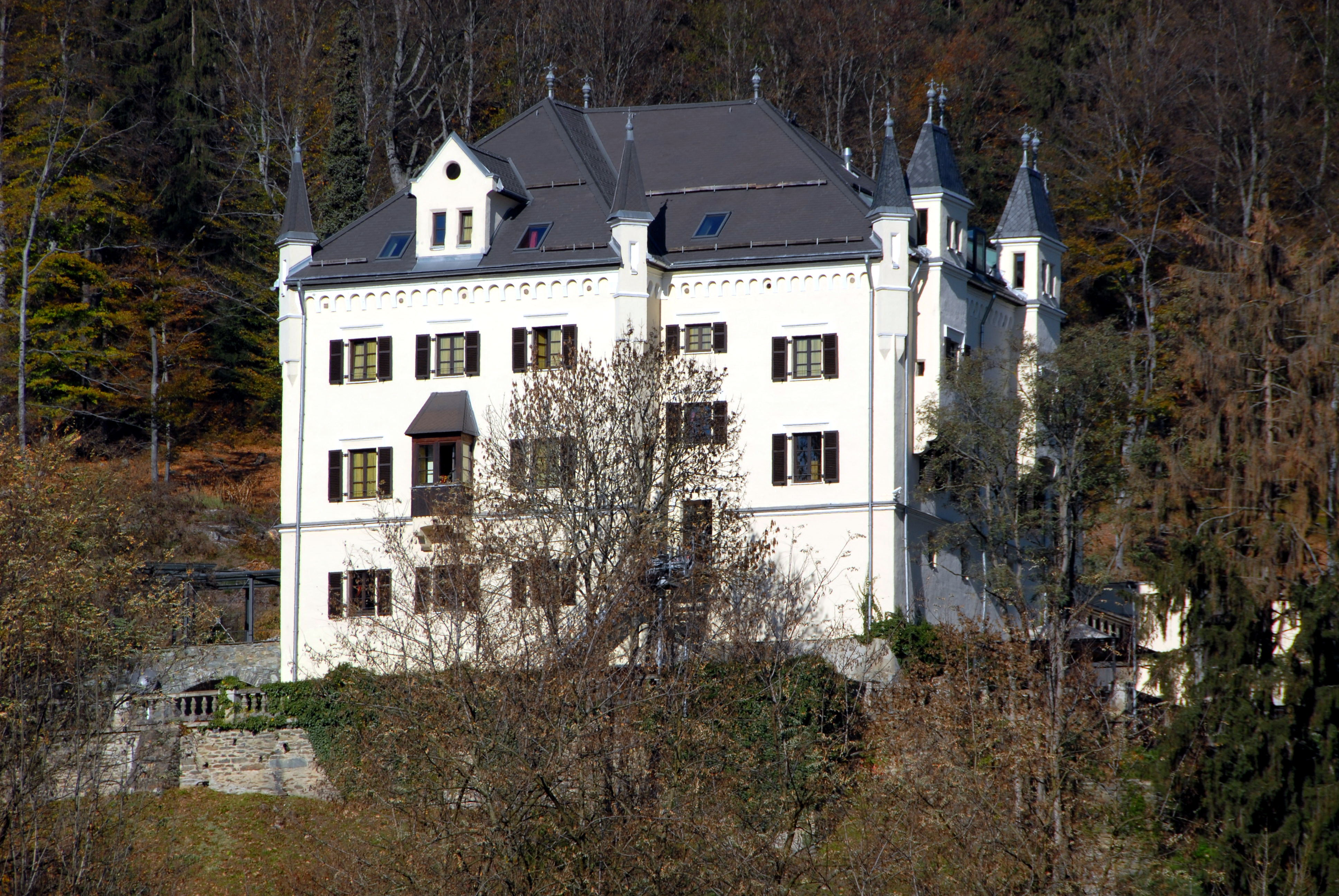 Castle “Freyenthurn”, 12th district “Sankt Martin”, north-west of the municipality Klagenfurt on the Lake Woerth, Carinthia / Austria / EU